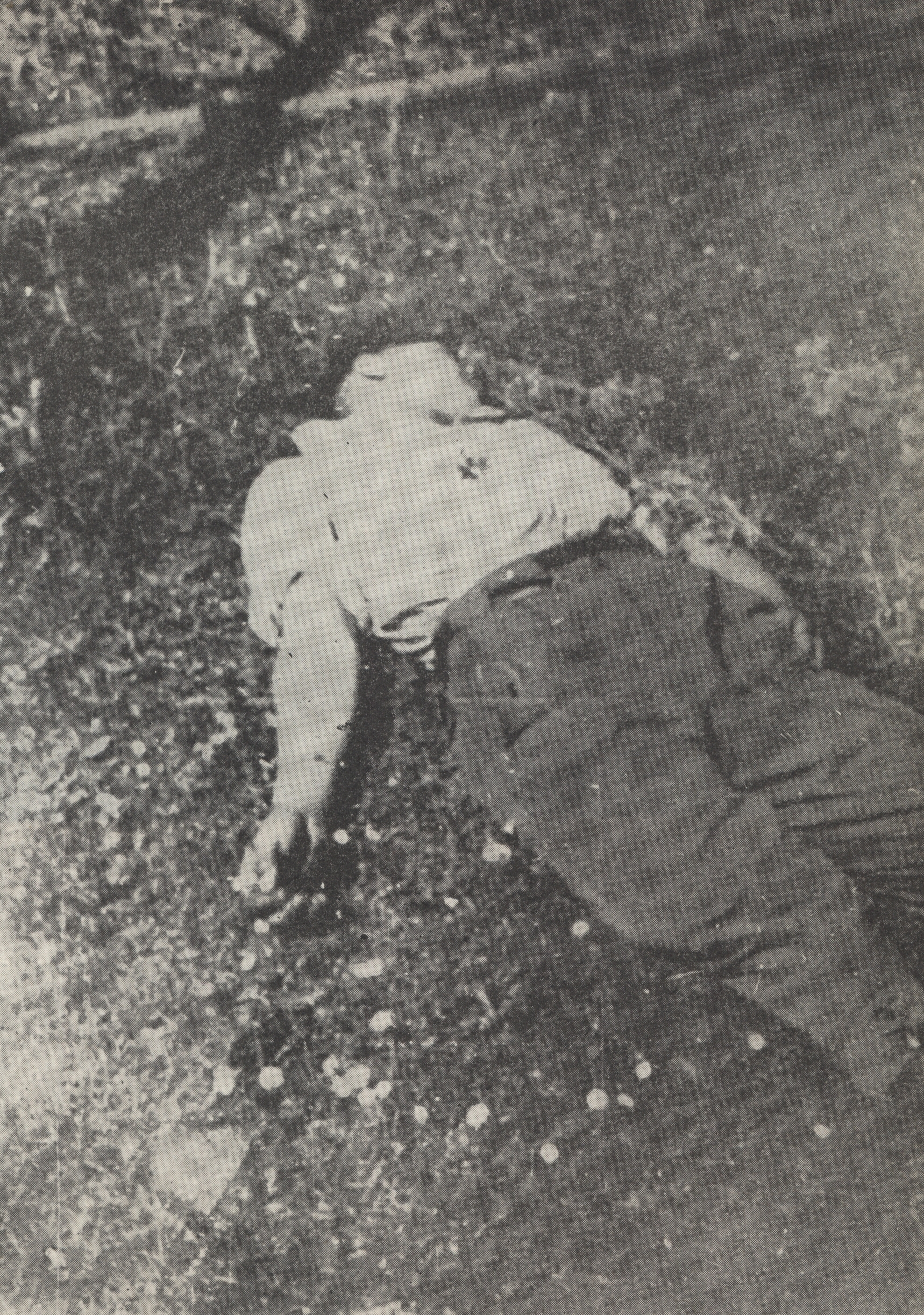 Polish village Sochy in Zamość county, burned by German occupants. On 1st June 1943 Wehrmacht troops destroyed Sochy and murdered 183 of its inhabitants. This photo was taken after the massacre.